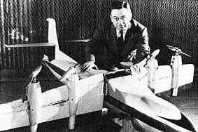 Charles H. Zimmerman poses next to a wind-tunnel model of a tiltwing aircraft.